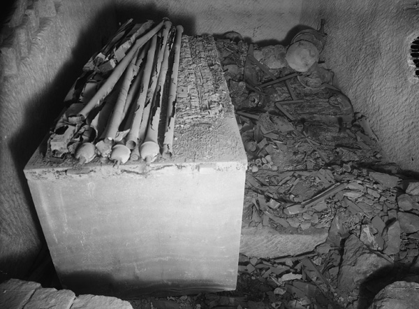 Giza, Tomb G 7000 X of Hetepheres I, burial chamber, looking South